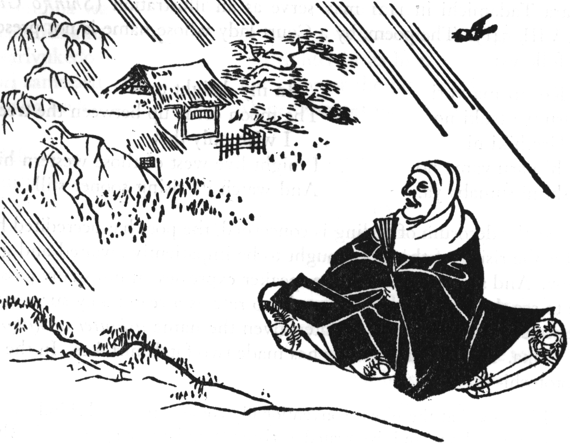 An image of the poet Fujiwara no Shunzei reciting his poem on the hotogisu (a bird) which was included in the Imperial anthology the Shinkokinshu. The original was produced for a book by Sogi commenting on that collection, with the actual artist being one Hishikawa Moronobu (d. 1694)